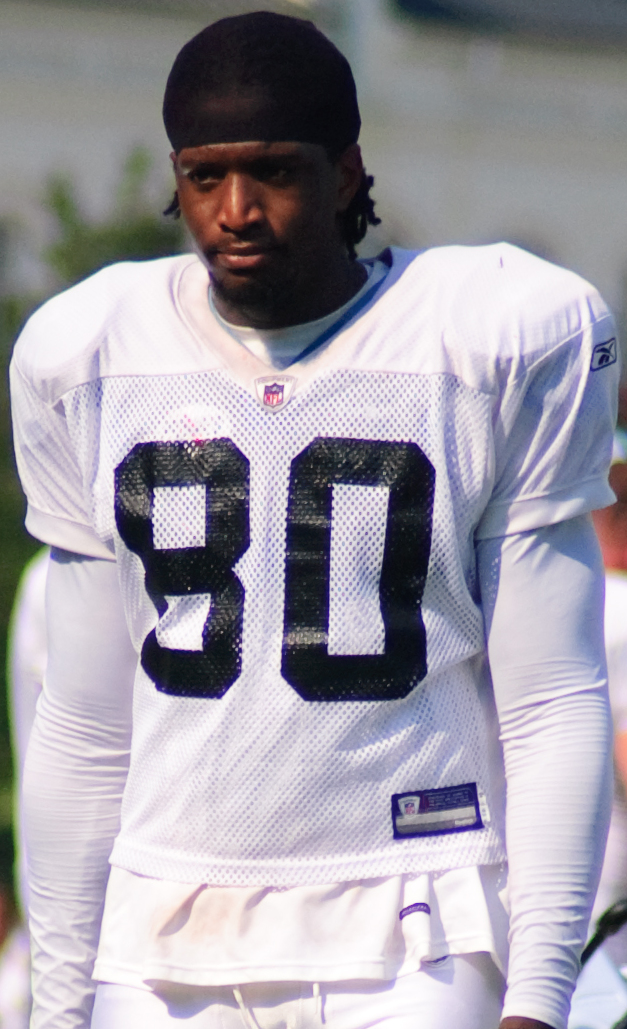 A morning at the Carolina Panther's Training Camp at Wofford College in Spartanburg, S.C. on 8/10/2009